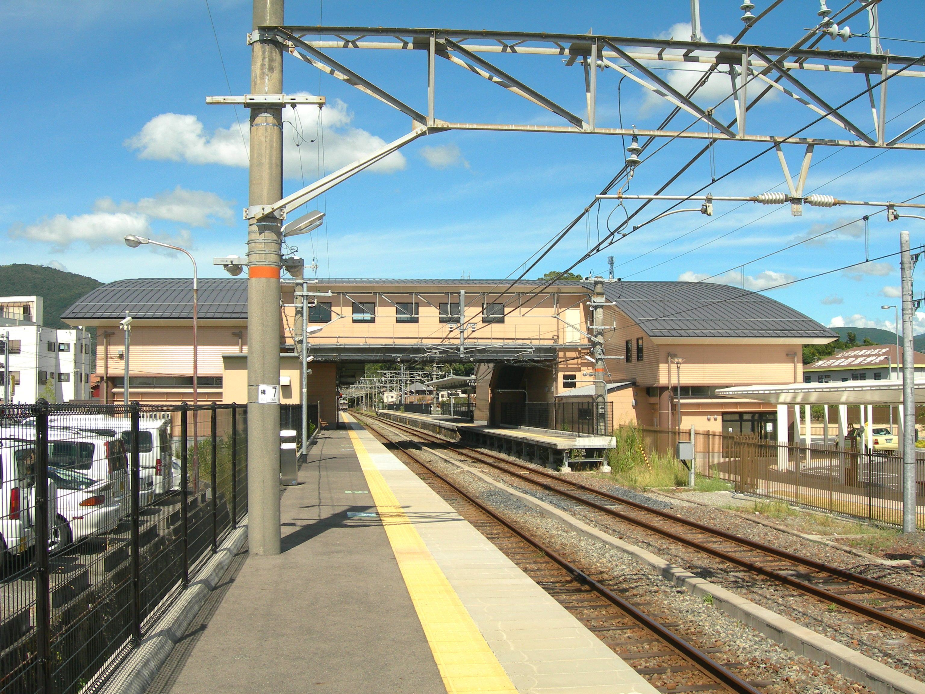 Fujinami Station platform